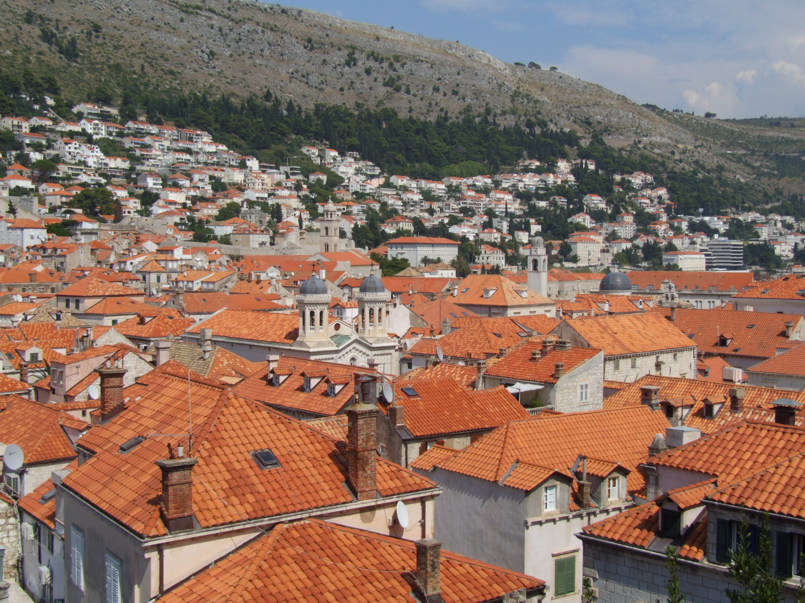 Dubrovnik - rooftops